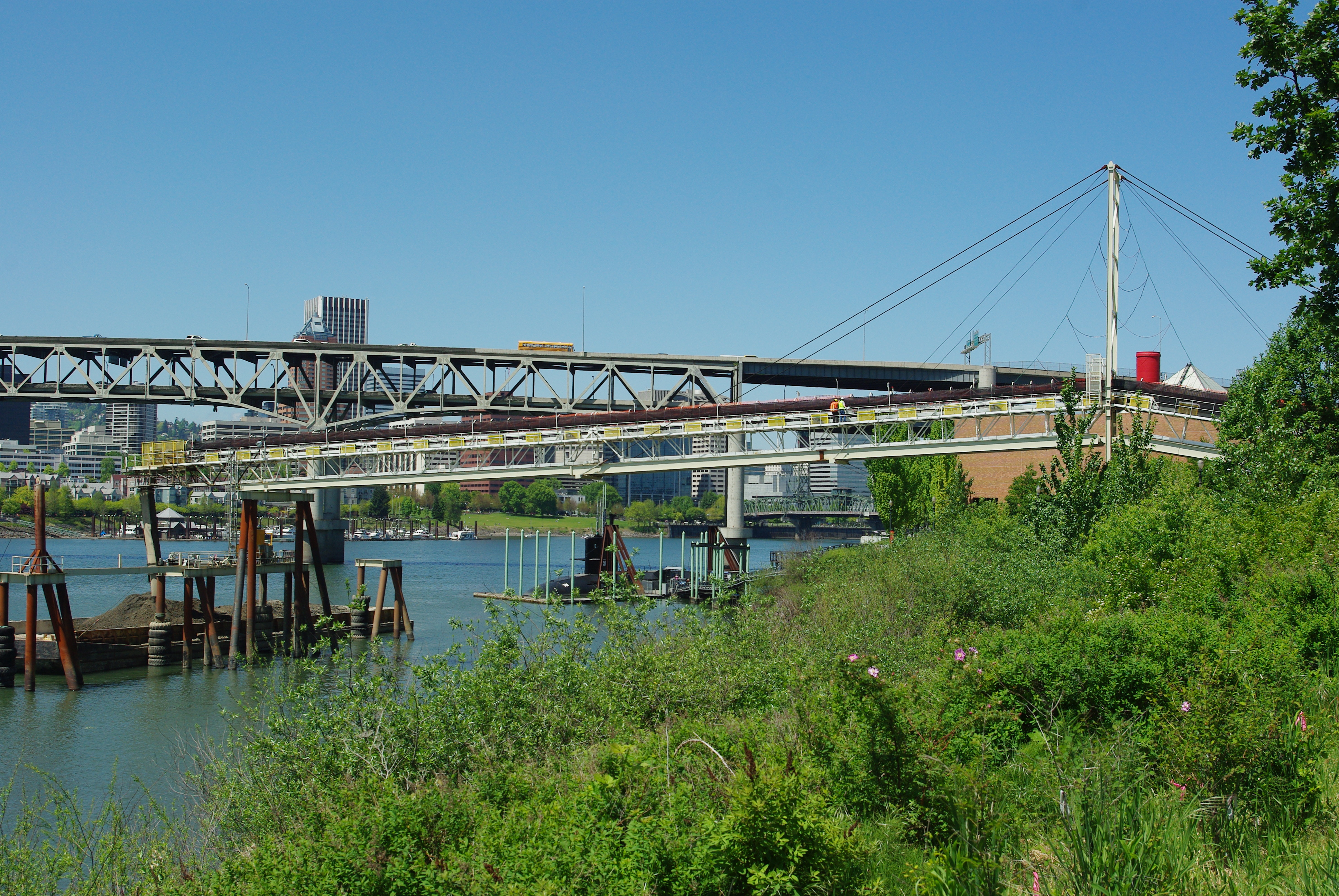 Conveyor belt onto barge on the Willamette River in Portland, Oregon. Removes digging debris from the Big Pipe project near OMSI.